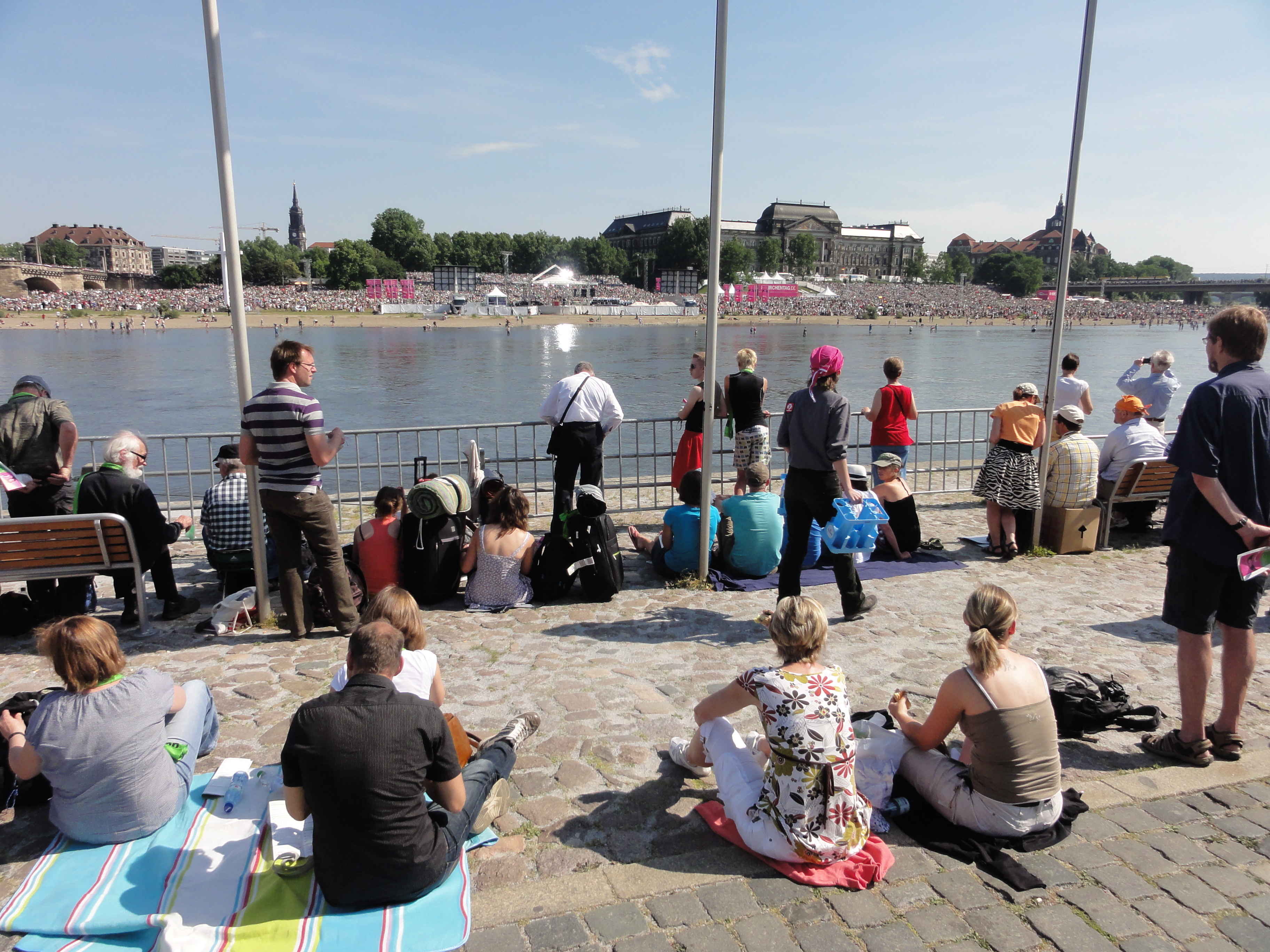 The 33rd church congress in Dresden.